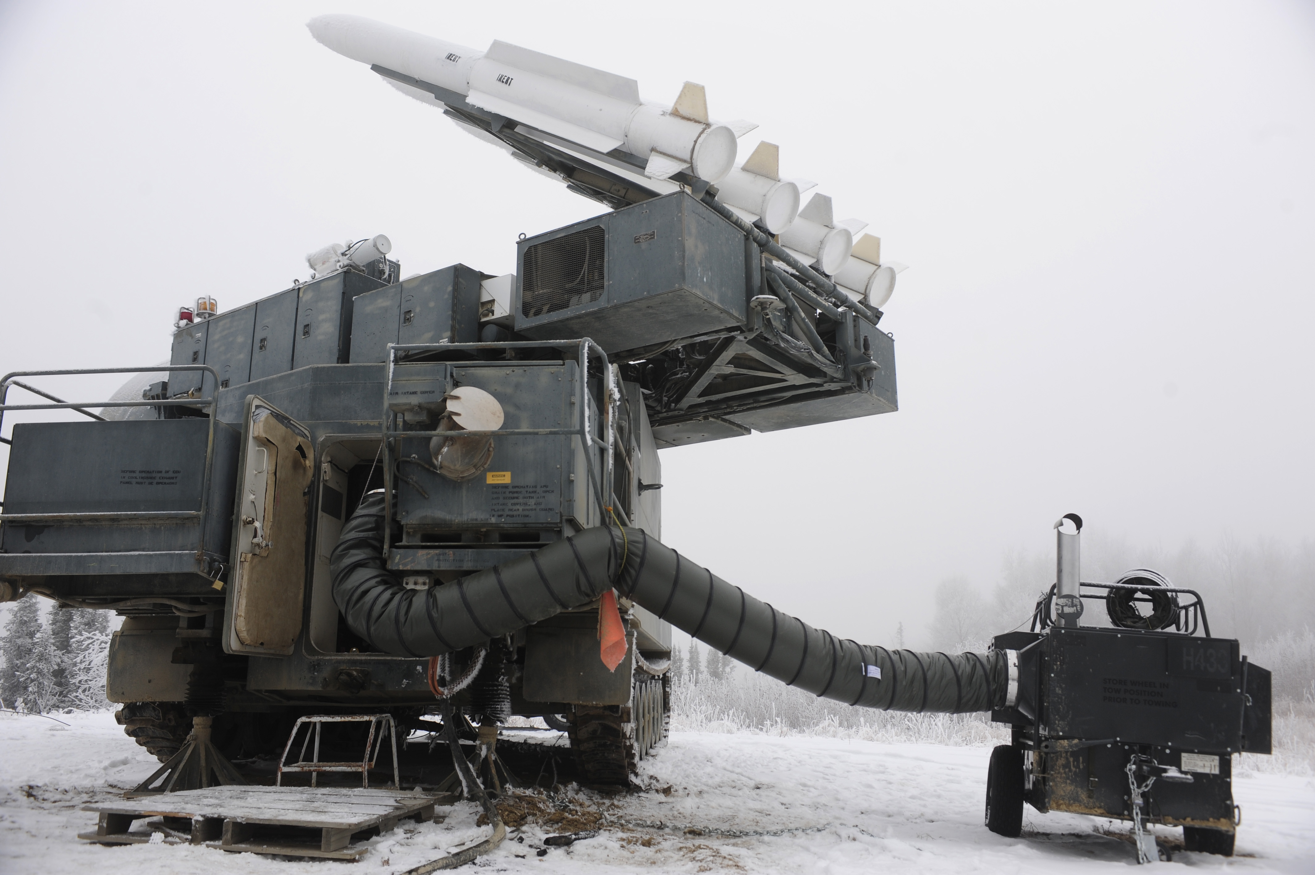 The red aggressor force uses a Russian-made "SA-11 Gadfly" Buk missile system — a surface to air missile launcher —to target the blue opposition forces during RED FLAG-Alaska 09-1 aerial combat exercises Oct. 6, 2008, at Eielson Air Force Base, Alaska. F-16 crews, acting as aggressors, keep in contact with the SA-11 crew to coordinate and lock onto blue forces while engaged in aerial combat.Important note: Actually, this is not "a Russian-made "SA-11 Gadfly". This may be an American copy of Buk made for training purposes. There are several visual differences including the large door (canonical Buk has only two hatches in front of the vehicle) and the "ugly" shape of the instrument compartments. Also one may notice the "INERT" sign on the missiles, the other captioning in English and the different (from Buk) vehicle tracks.